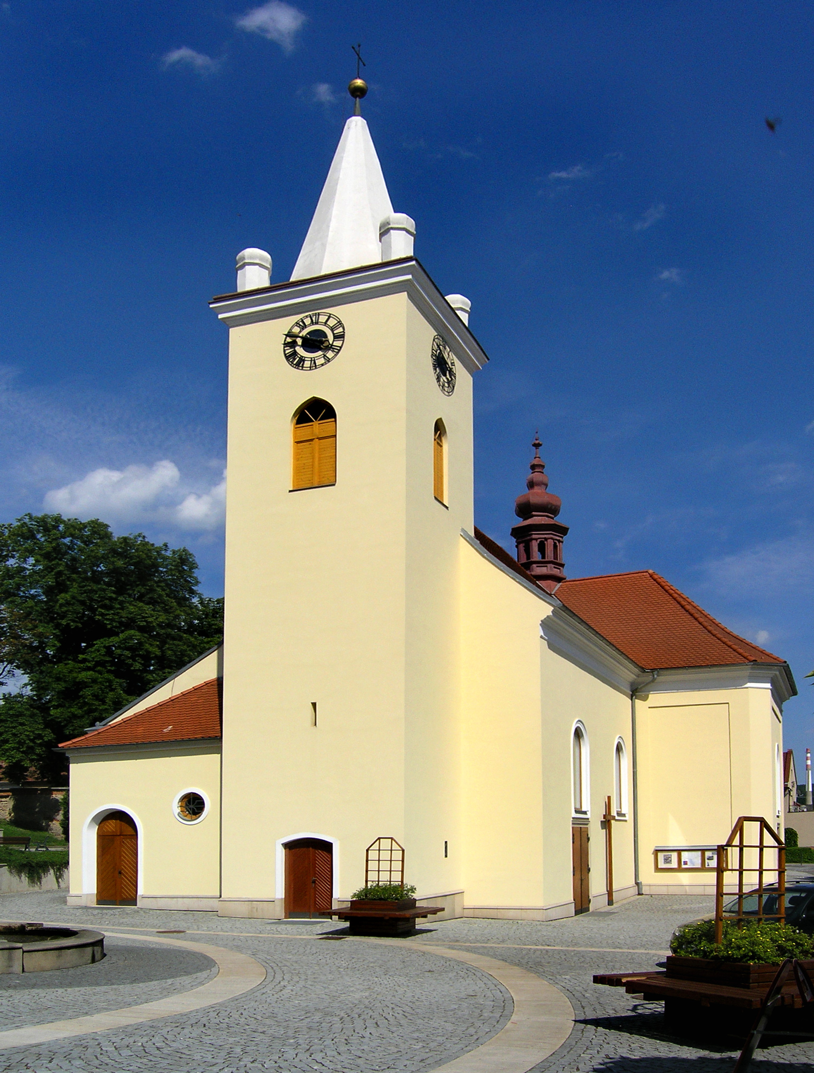 Church of St Lawrence in 3. května square in Řečkovice quarter, Brno, Czech Republic